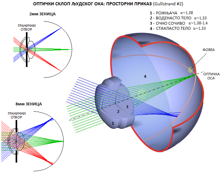 ОПТИЧКИ СКЛОП ОКА